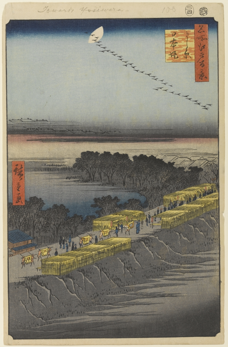 Part of the series One Hundred Famous Views of Edo, no. 100, part 4: Winter.